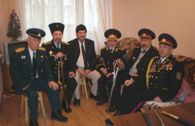 Засновники Задністрової Січі. 2005 рік.